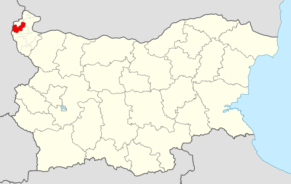 Location map of Kula Municipality within Bulgaria and Vidin Province. Equirectangular projection, N/S stretching 130 %. Geographic limits of the map: N: 44.4° N S: 41.1° N W: 22.1° E E: 28.9° E